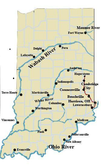 A map of the route of the Whitewater Canal.